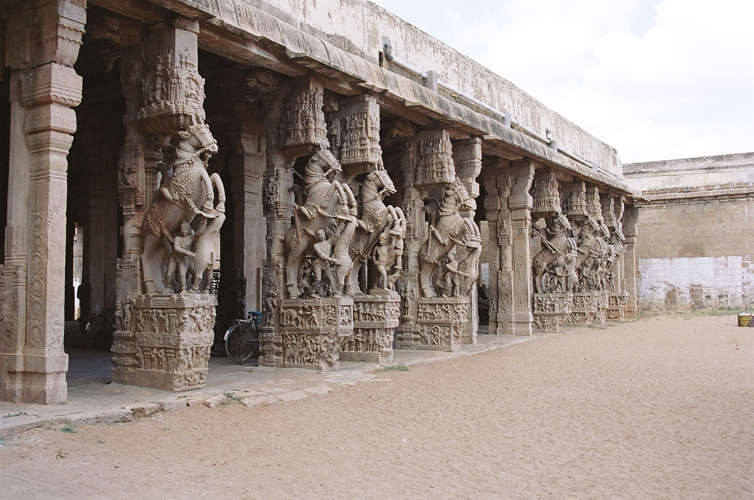 Beautifully carved pillars in the Trichy Srirangam temple complex